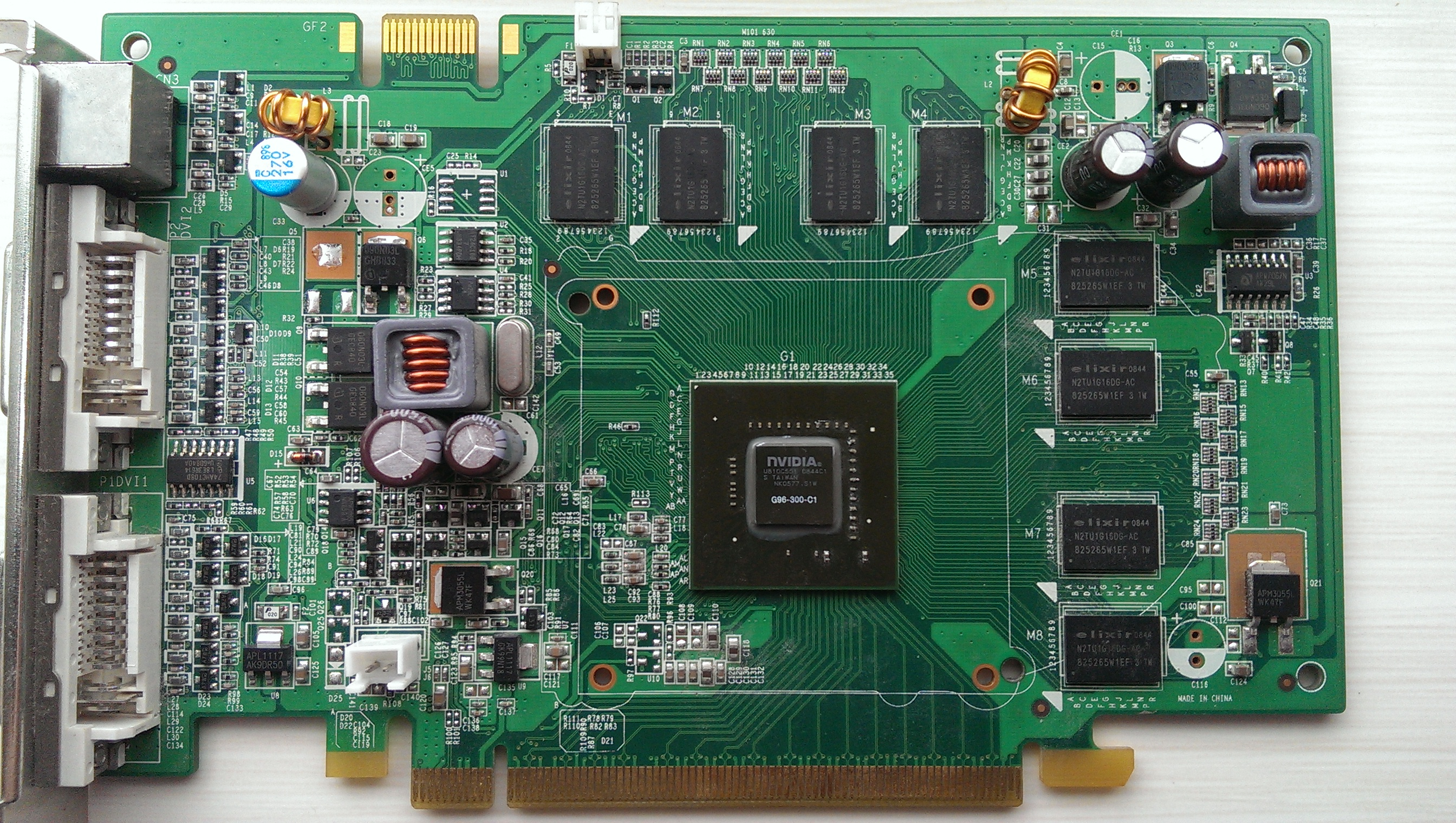 The NVIDIA GeForce 9500 GT manufactured by BFG. This is the edition of the graphics card with 1 GB of video RAM. The heatsink has been removed, making the GPU visible in the centre.